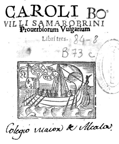 Caroli Bouilli samarobrini Prouerbiorum vulgarium (1531) Charles de Bovelles (1479-1567)